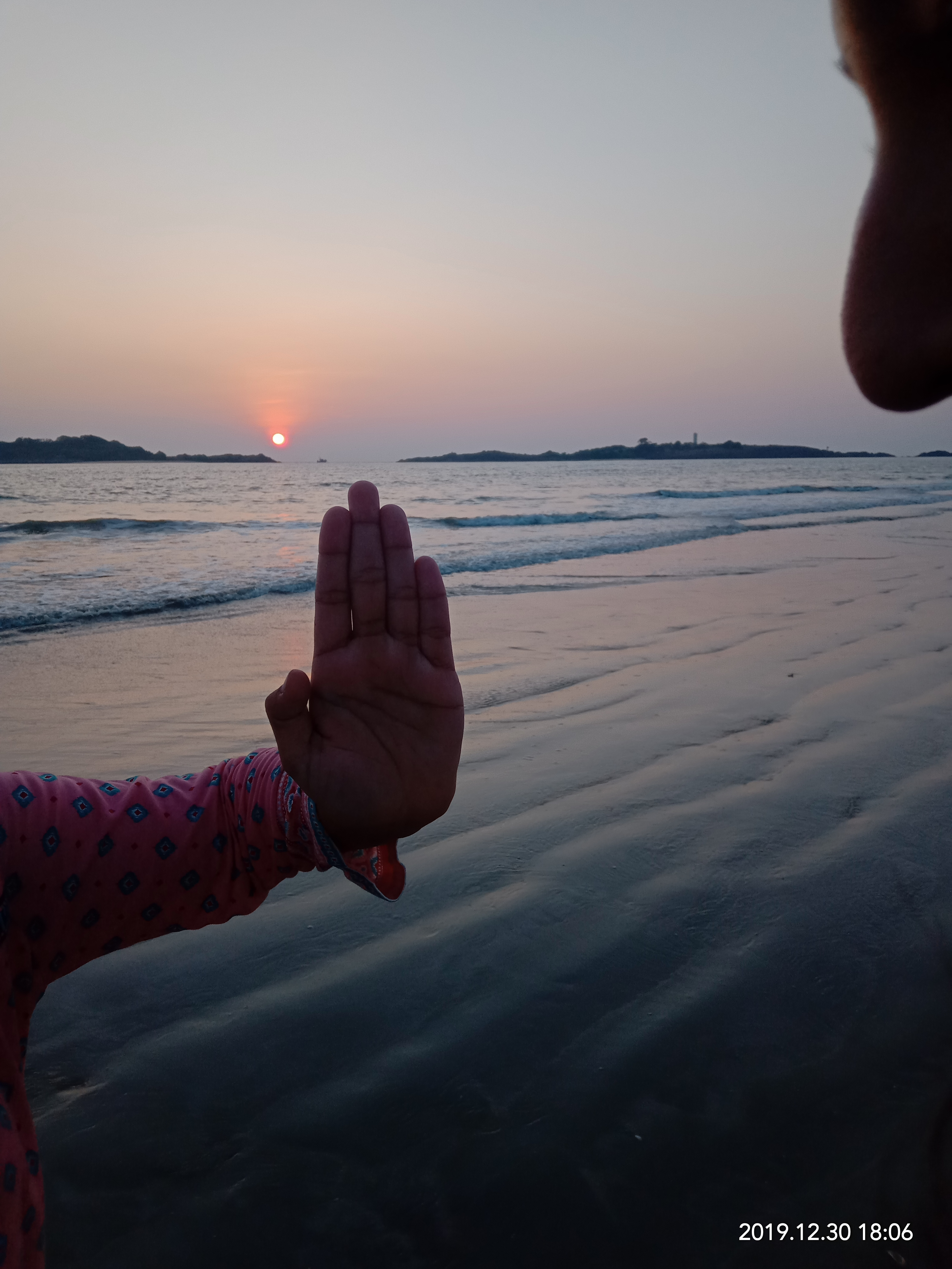 photo of Pataka Hasta